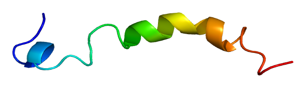 Structure of the PTHLH protein. Based on PyMOL rendering of PDB 1bzg.